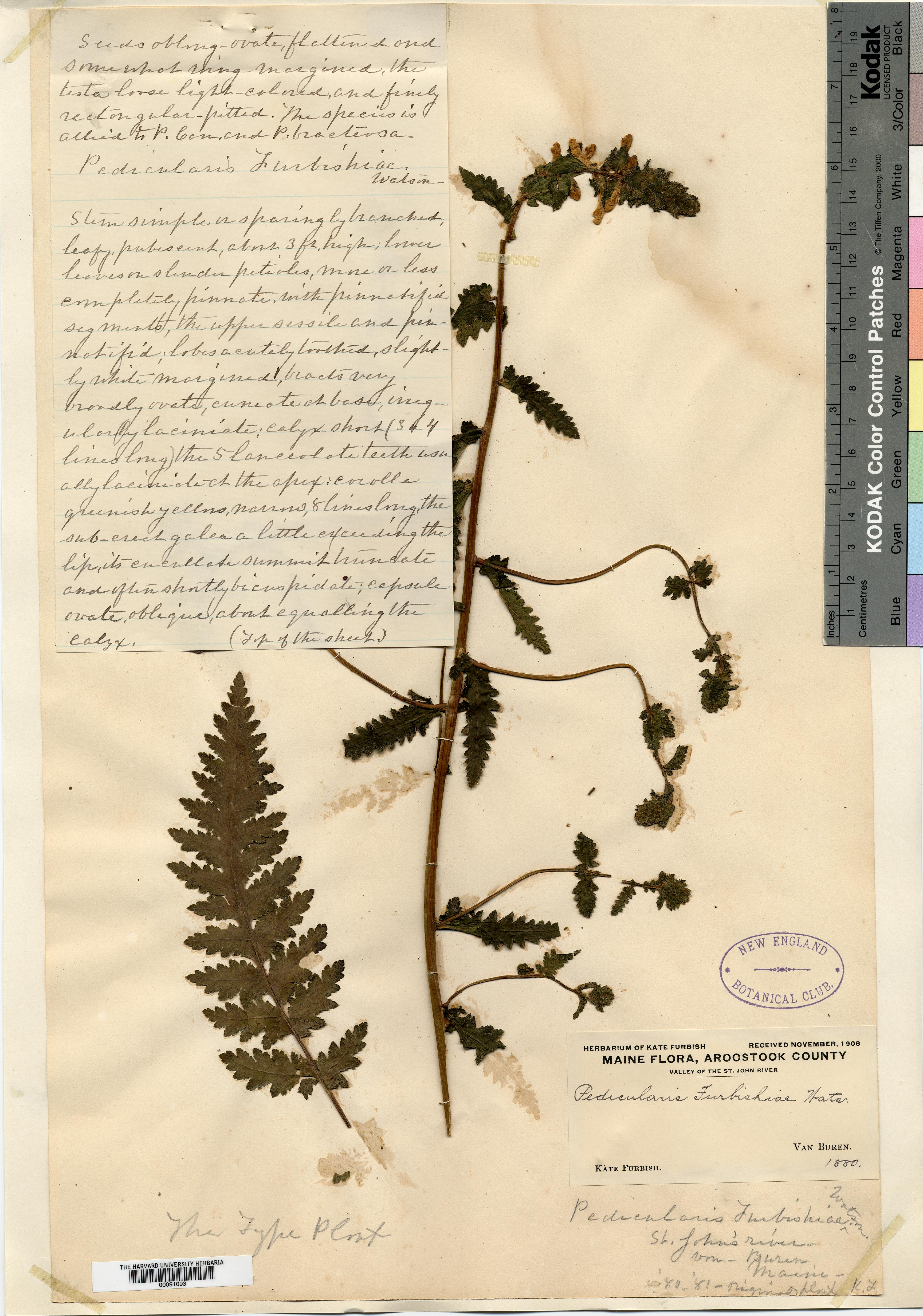 Pressing of the Pedicularis furbishiae discovered by botanist, Catherine 'Kate' Furbish near the St. John's River in Maine.